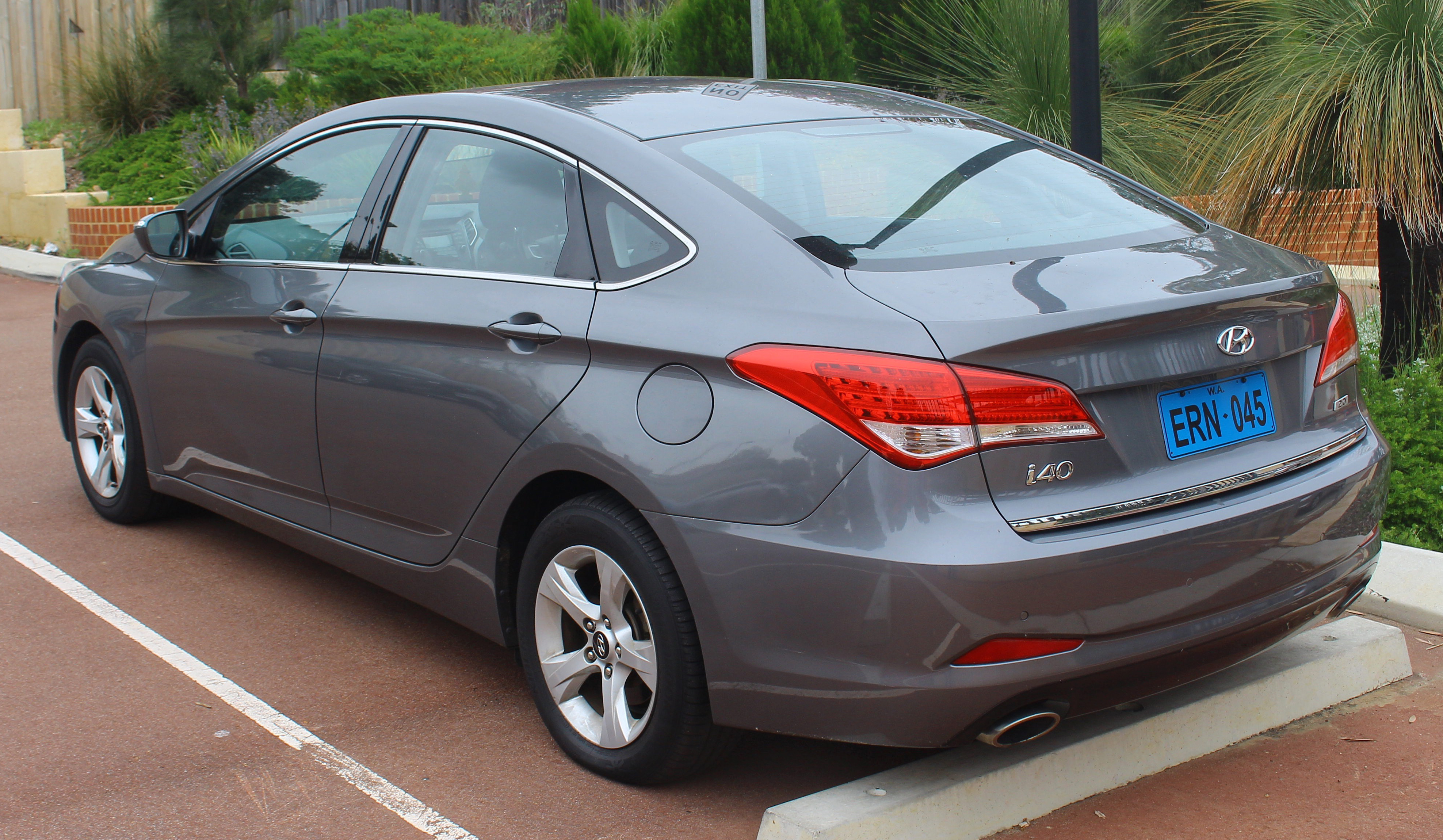 2012-2015 Hyundai i40 (VF2) Active 2.0 sedan. Photographed in Swanbourne, Western Australia, Australia.